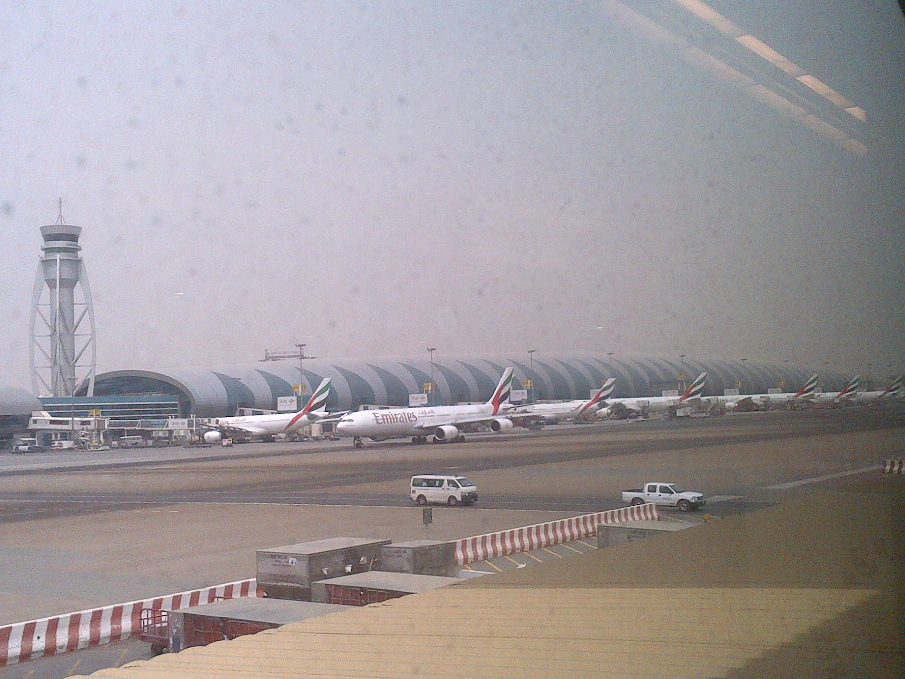 DXB Terminal 3 as seen from the Terminal 1 building